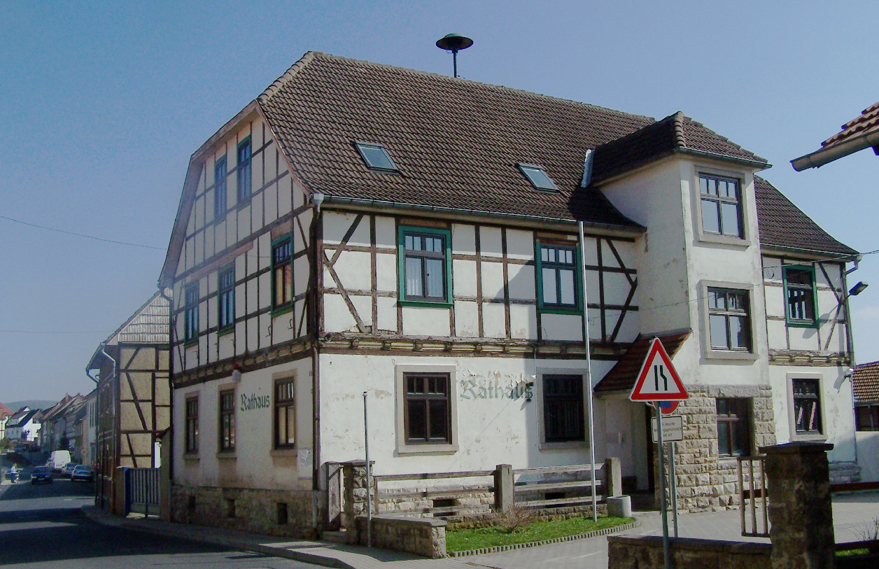 The administration building in Mihla.